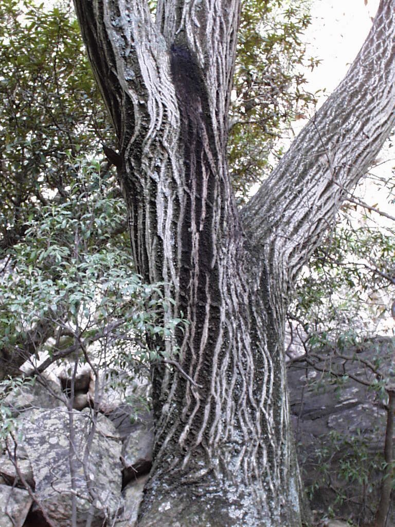 Habit of Olea capensis growing at Ysterhoutkloof in the Magaliesberg in South Africa